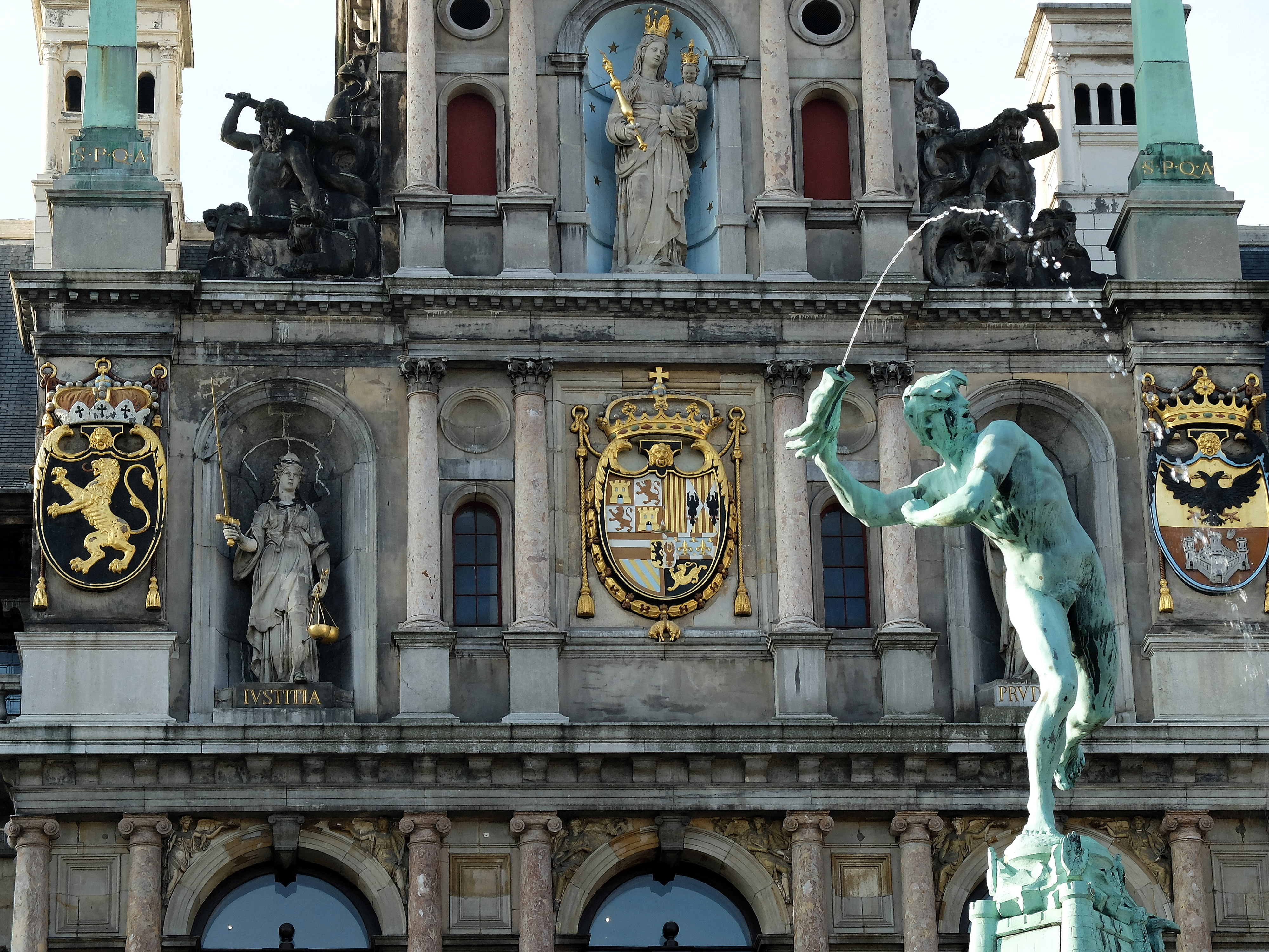 Facade of Antwerp town hall close up